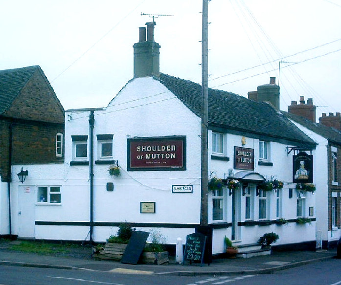 Pub2 in Coton in the Elms, South Derbyshire